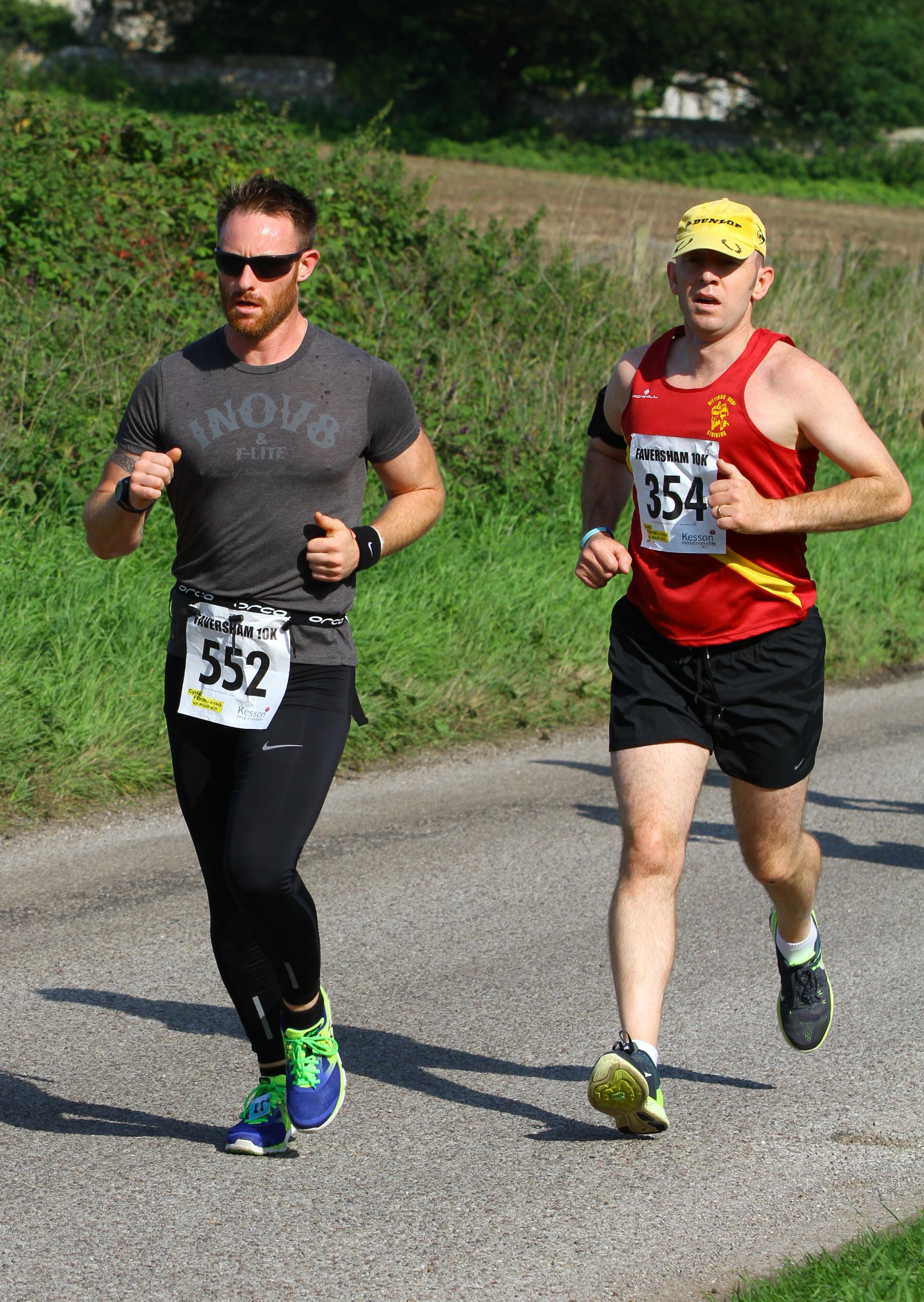 FNK_0304